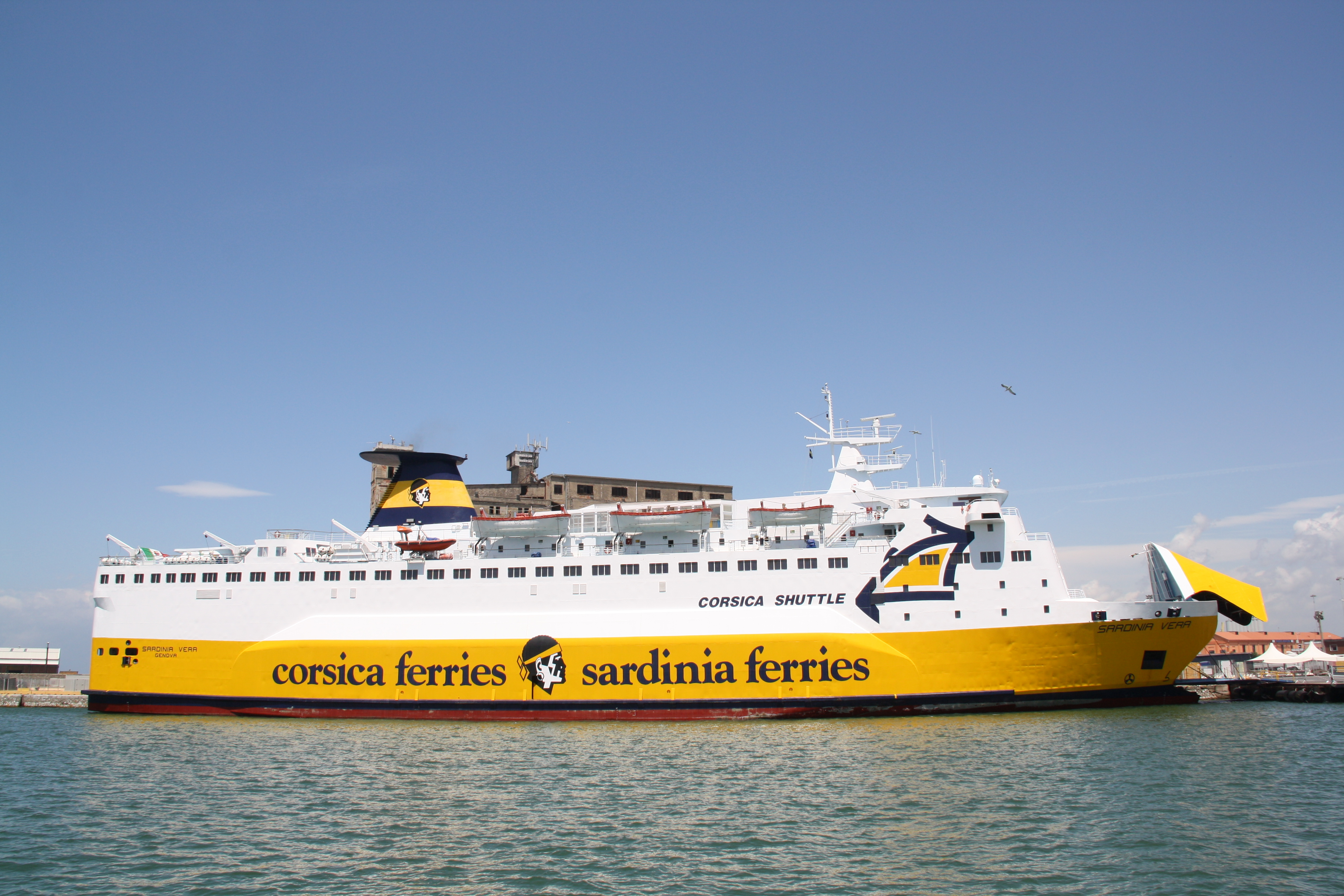 Shipowner: Forship, Vado Ligure, Italy Operator: Forship Italia, Vado Ligure, Italy IMO: 7360617 MMSI: 247392000 Call sign: IBWV Type: Ropax Builder: Rickmers Werft, Bremenhaven, Germany Keel laid: April 4, 1974 Launch date: December 18, 1974 Port of registry: Genova Gross tonnage: 12,107 t DWT: 2,840 t Length overall: 120 m Breadth: 19.51 m Draught: 5.90 m Main engine: 2x MaK 12M551AK diesel engines Engine power:10,385 kW Speed: 18 knots Passengers: 1,500 Cars: 550